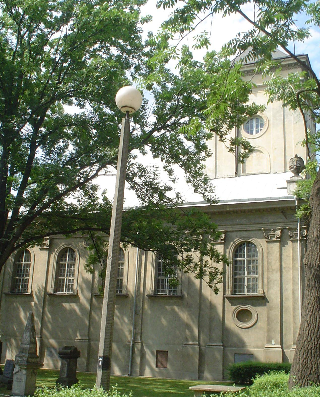 Evangelical Lutheran Church, Lublin, Poland